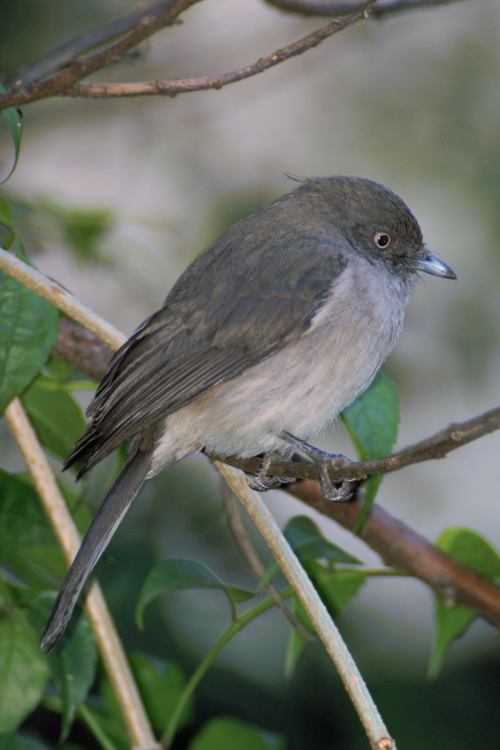 Abyssinian Slaty Flycatcher (Dioptrornis chocolatinus). Taken in Adis Ababa.